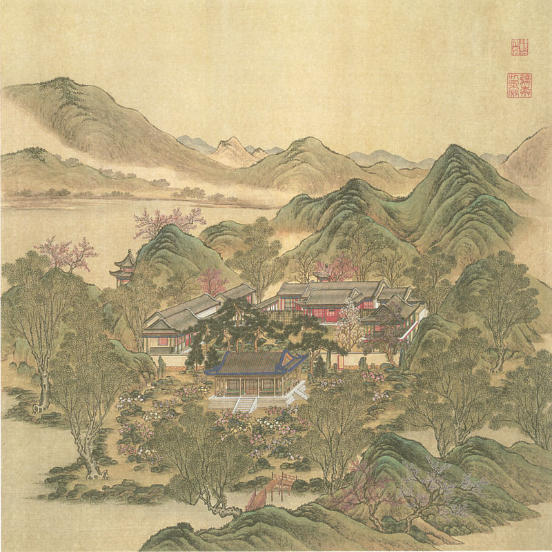 Louyue kaiyun A large garden featuring peonies (with the Kangxi emperor noting ninety different varieties)